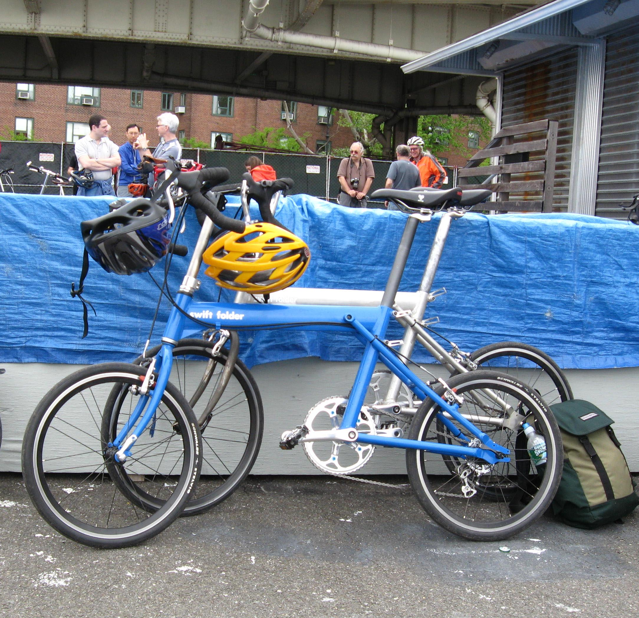 Looking west on a cloudy afternoon in Stuyvesant Cove on the East River at two Swift Folders.